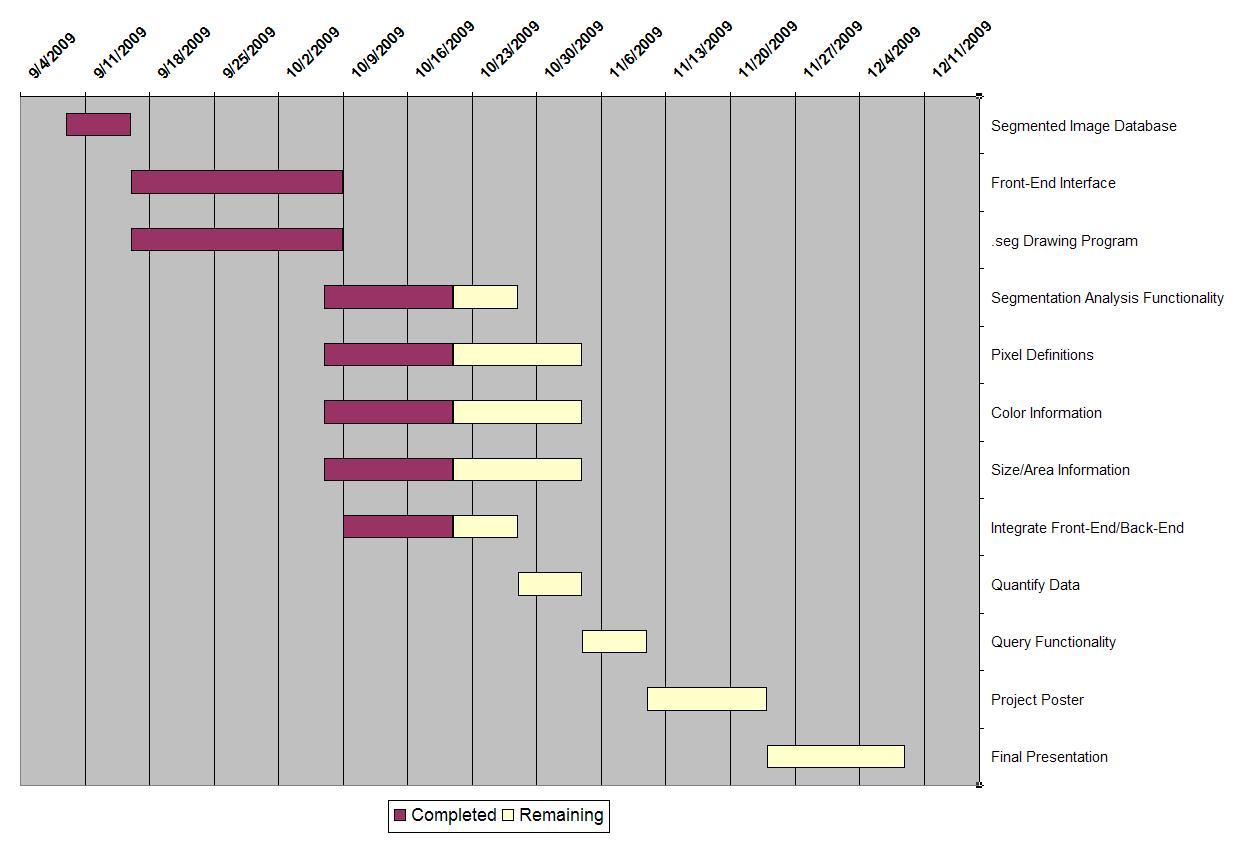 CSE 379 Gantt Chart for the week of 10/21